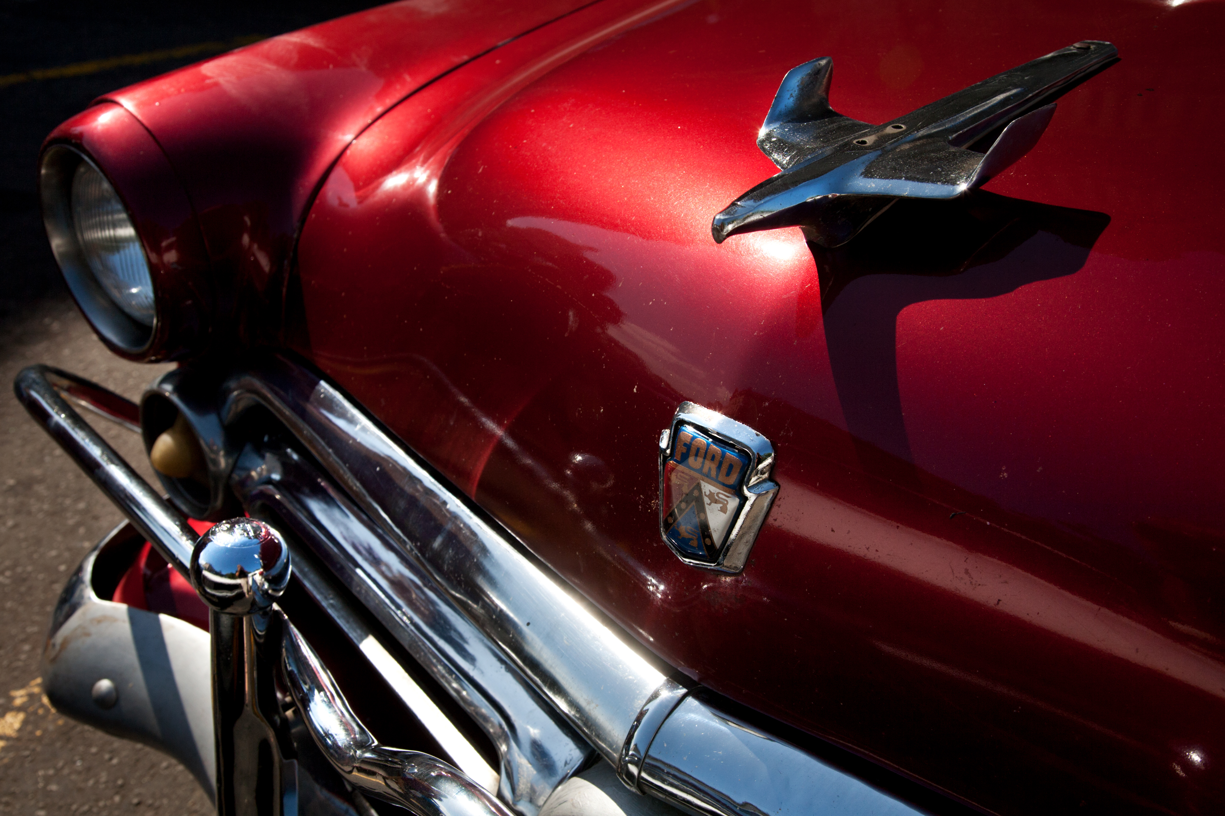 1952 Ford detail. Havana (La Habana), Cuba Note: hood ornament does not seem original for this model - it should be a slanted-wing aeroplane